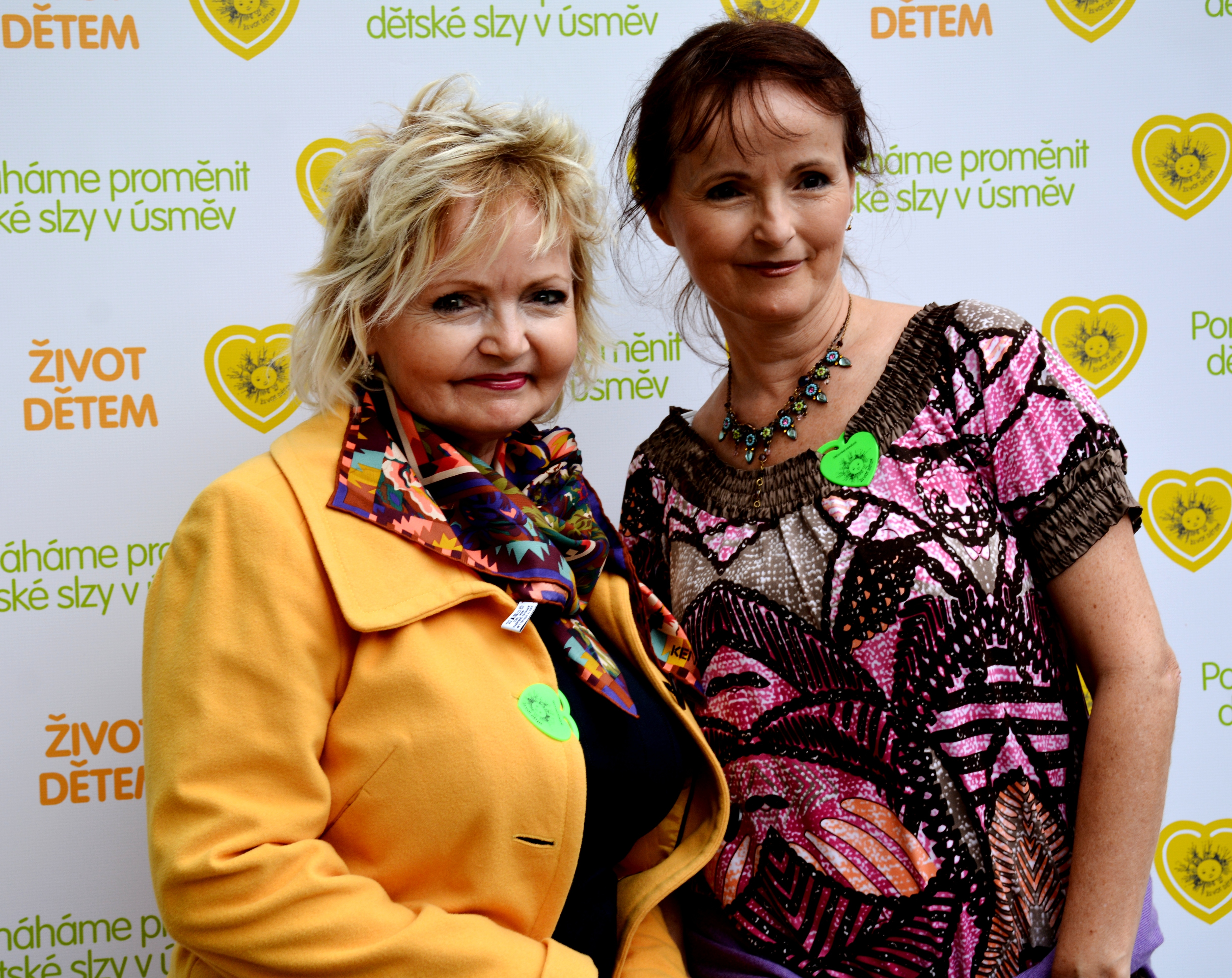 Eva Hrušková and Jana Yngland Hrušková, Czech actresses